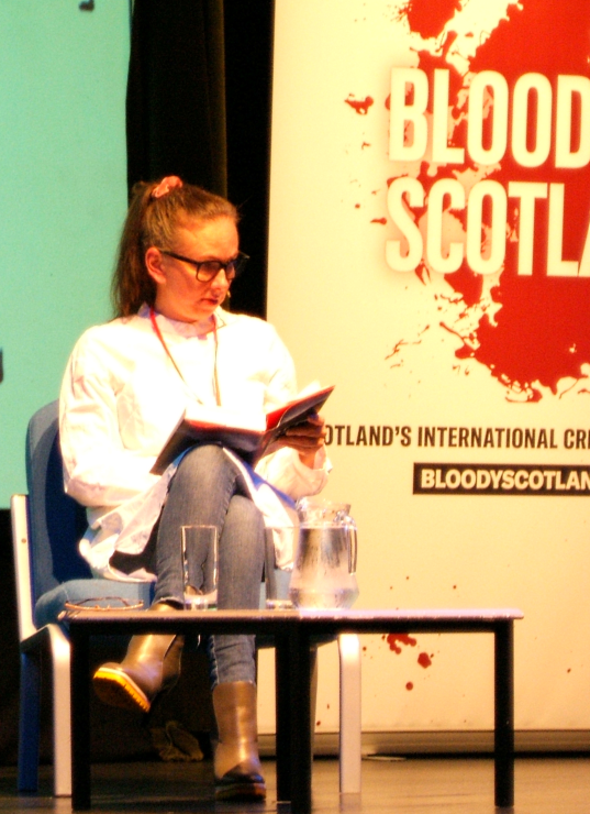 Author Yrsa Sigurðardóttir reading at Bloody Scotland International Crime Writing Festival, 2019